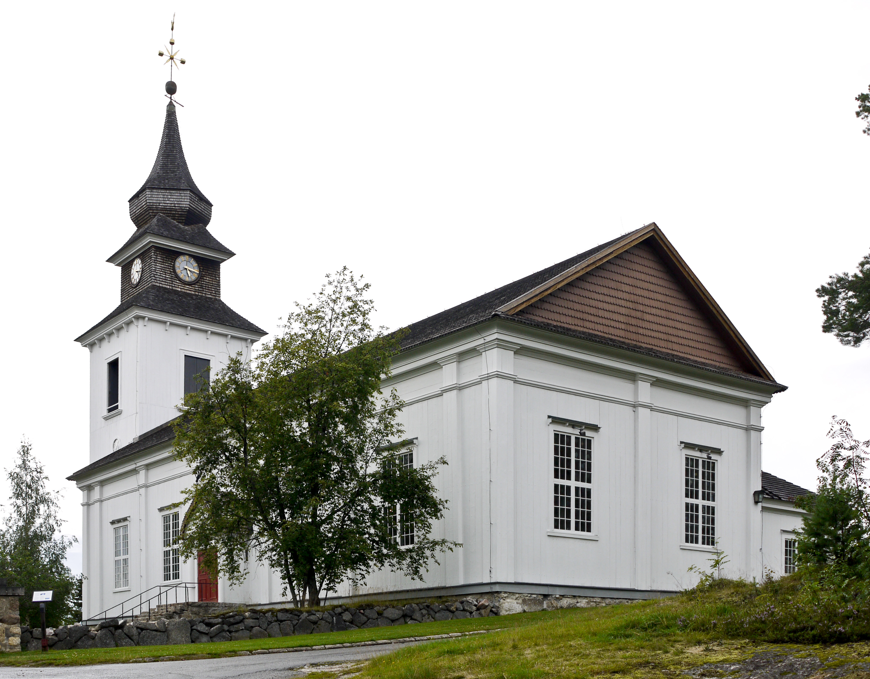 Vilhelmina church, Diocese of Luleå, Vilhelmina, Sweden.